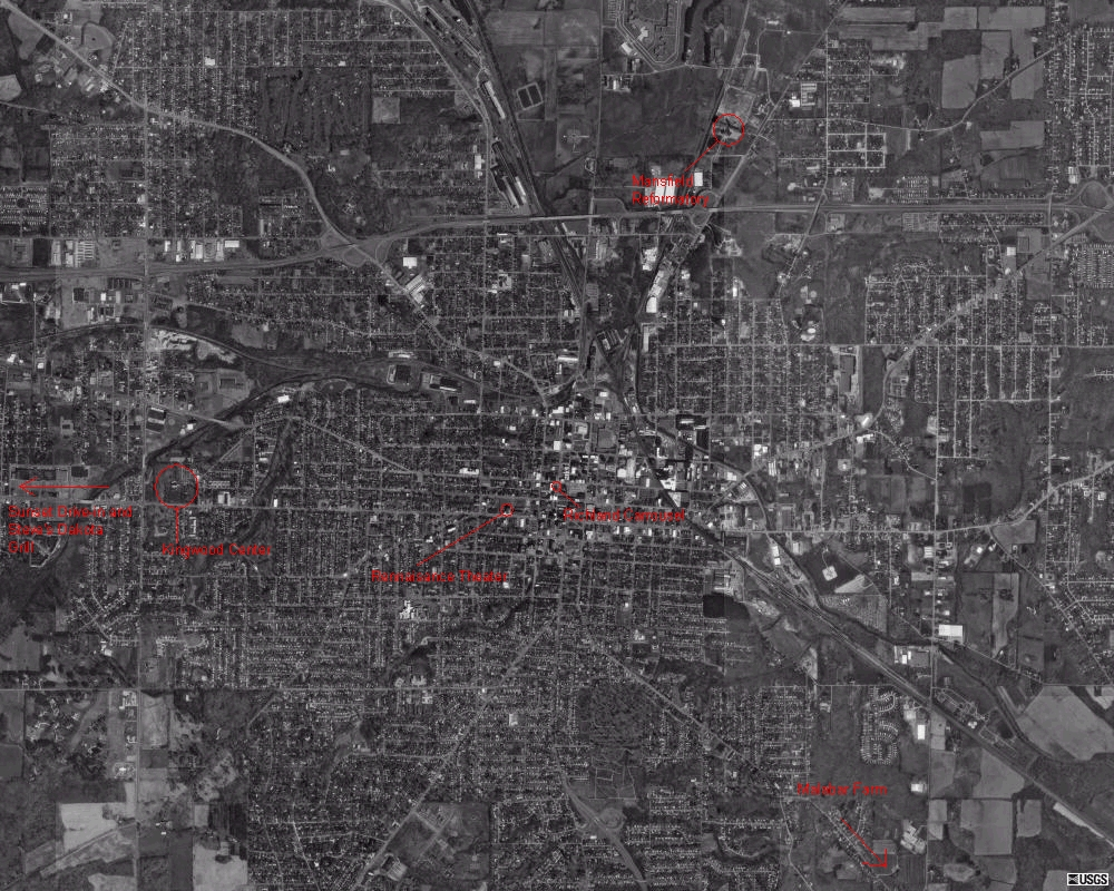 Mansfield Ohio Terraserver image ((PD)) marked with places of interest